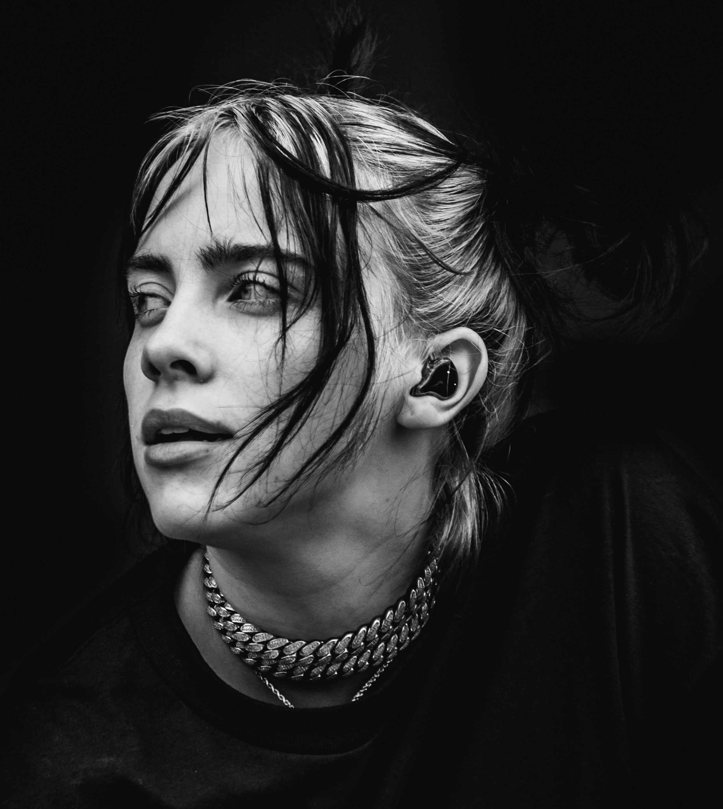 © Lars Crommelinck Photography BillieEilish #Pukkelpop2019